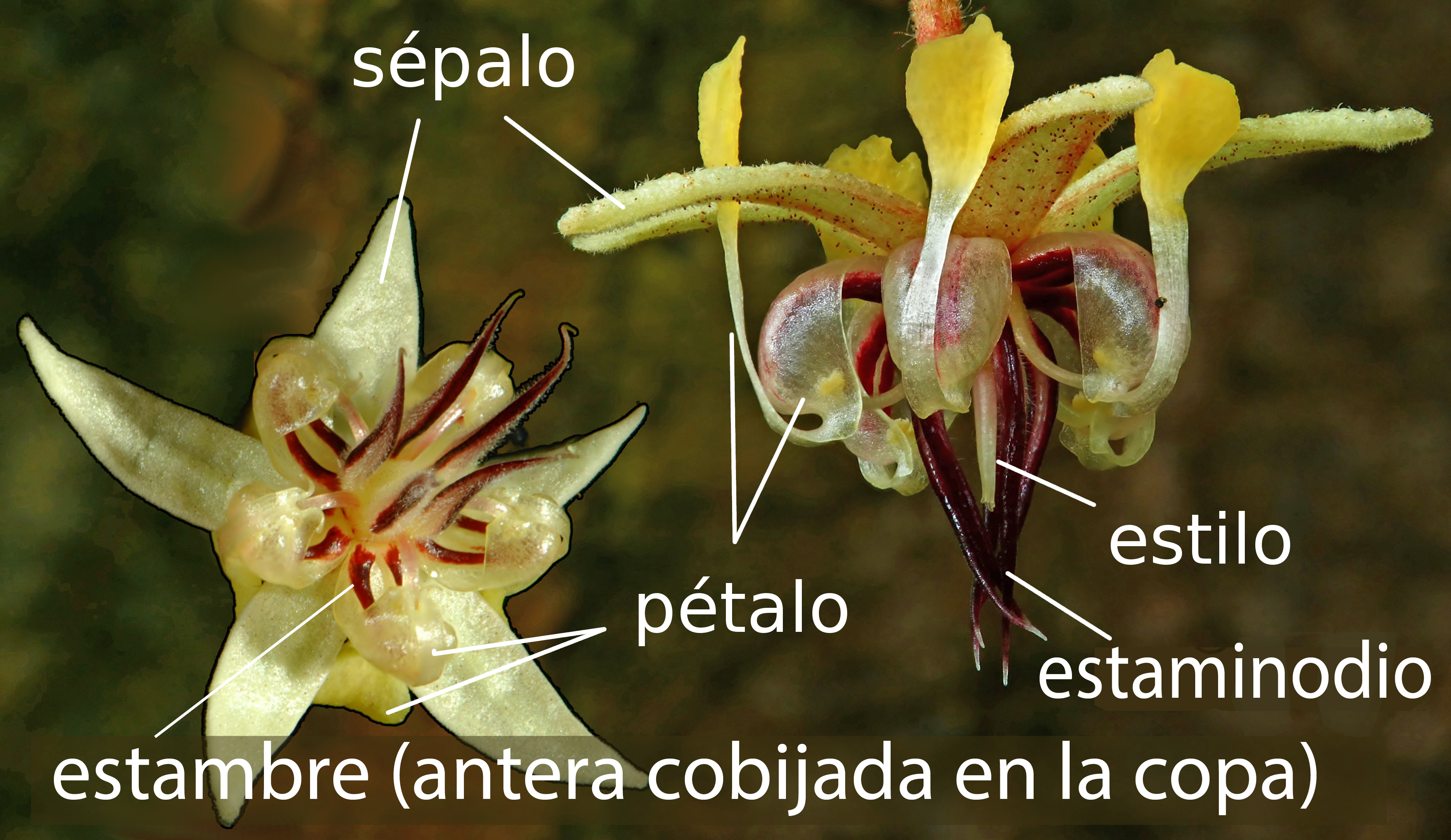 Spanish labels